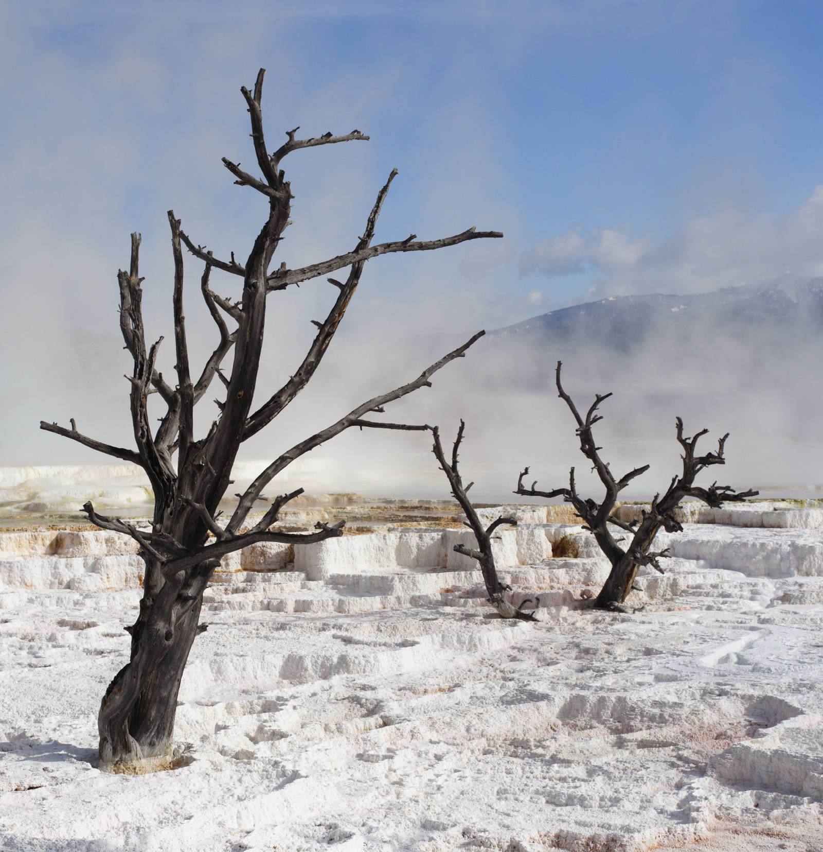 Dead trees in the terraces of Mammoth Hot Springs, Yellowstone National Park, Wyoming, US. These trees grew during inactivity of the mineral-rich springs, and were killed when calcium carbonate carried by spring water clogged the vascular systems of the trees. The same process also effectively preserves the trees by preventing decay. (A 2×1 panorama).